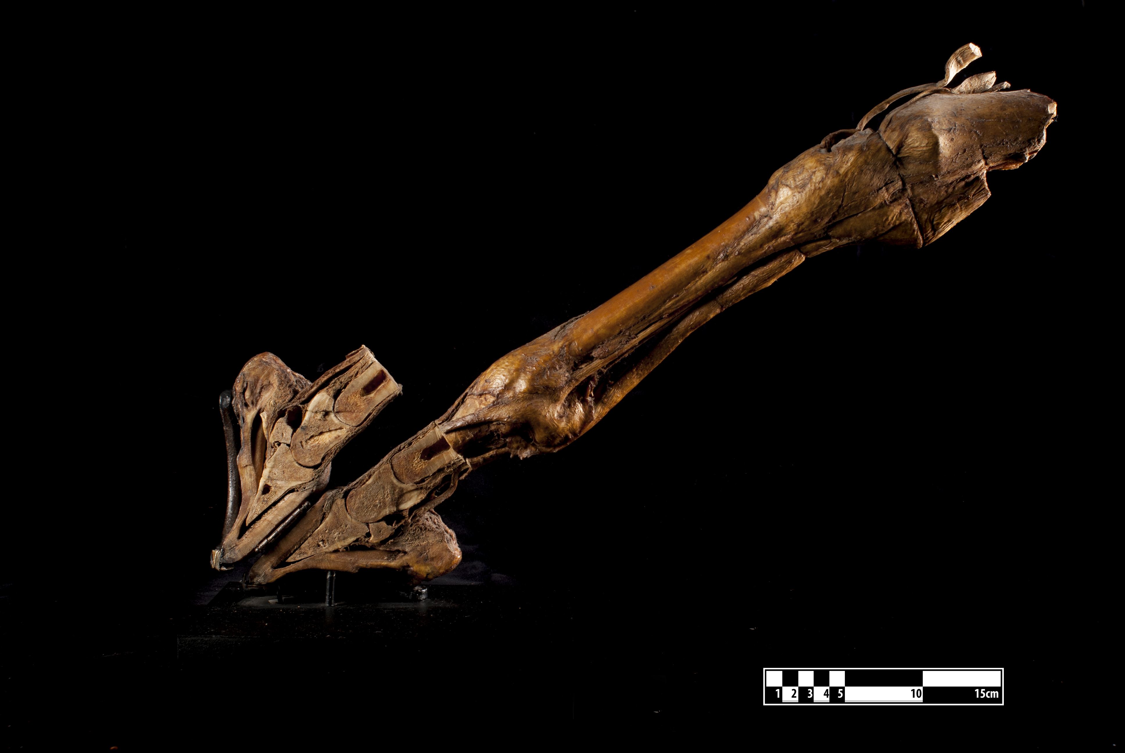 Equine articulation. Equus Technique of dissection and freeze-drying. Cross-section showing the bones and ligaments of the forelimb. Displayed at the Museum of Veterinary Anatomy, FMVZ USP. This file was published as the result of a partnership between the Museum of Veterinary Anatomy FMVZ USP, the RIDC NeuroMat and the Wikimedia Community User Group Brasil. This GLAM project is reported. Photography: Museum of Veterinary Anatomy FMVZ USP. Author: Wagner Souza e Silva.